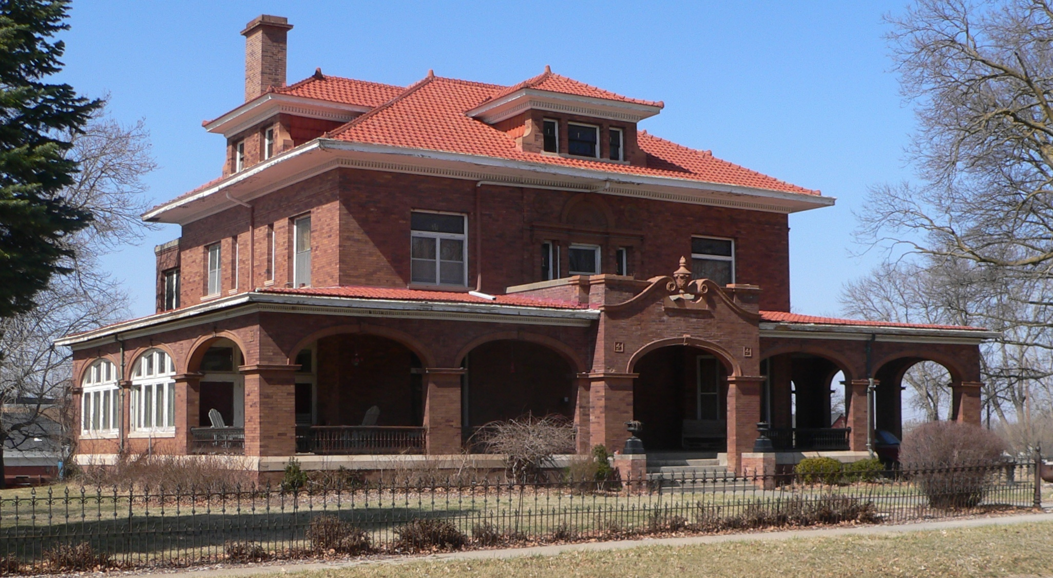 Samuel Kilpatrick house, located at 701 N. 7th Street in Beatrice, Nebraska; seen from the southeast.